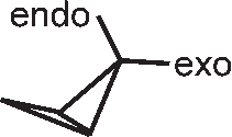 isomerism endo/exo on bicycles, here bicylo[1.1.0]butane